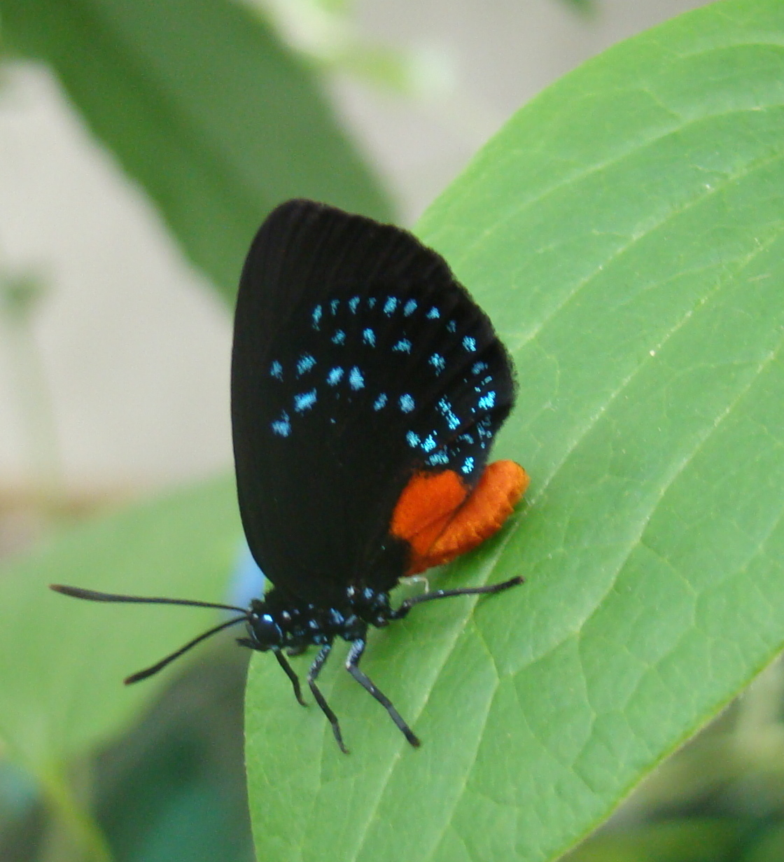 Picture of Eumaeus atala taken at the Hershey Gardens Butterfly house.